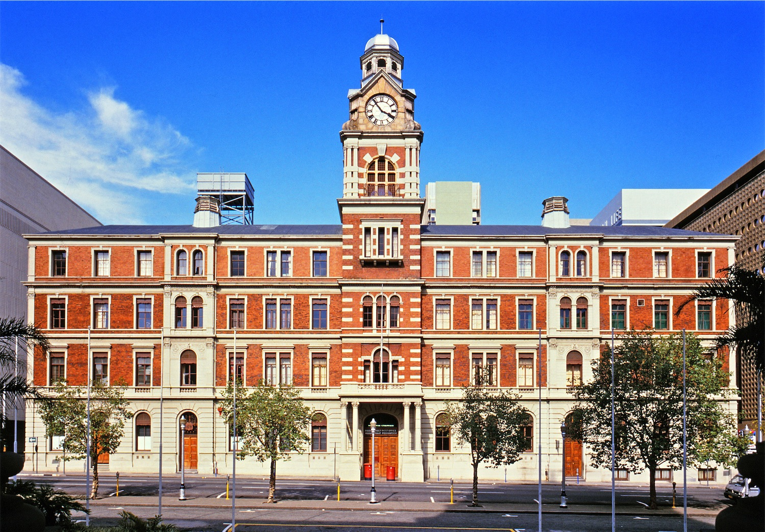 This media shows a South African Protected Site with SAHRA file reference 9/2/228/0067.